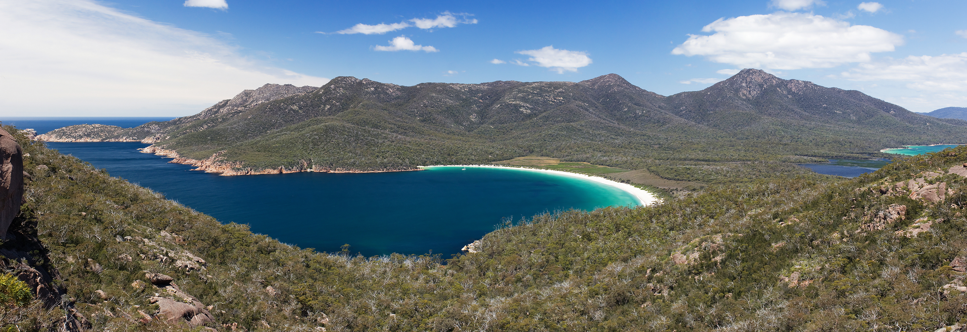 Wineglass Bay from Lookout, Freycinet National Park, Tasmania, Australia